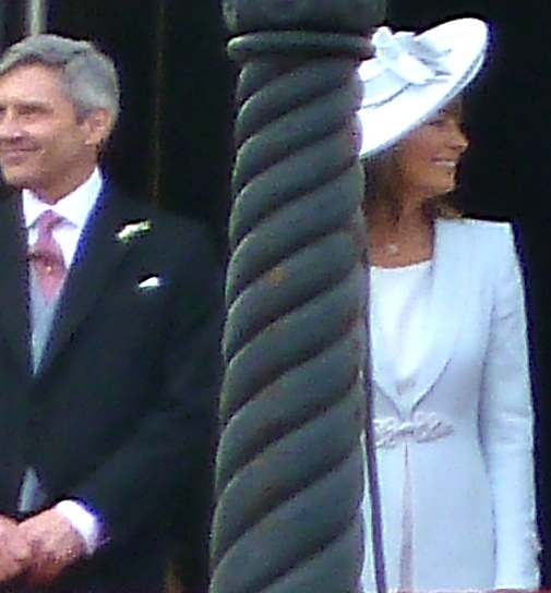 Parents of Kate Middleton on Buckingham Palace balcony